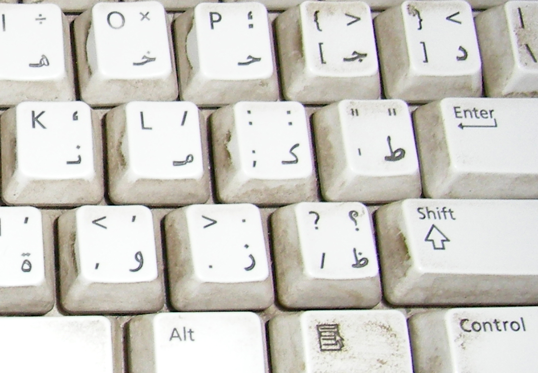 PC-keyboard with arab letters, fotographed by P. R. Binter at an Internet Cafe in Egypt 2006